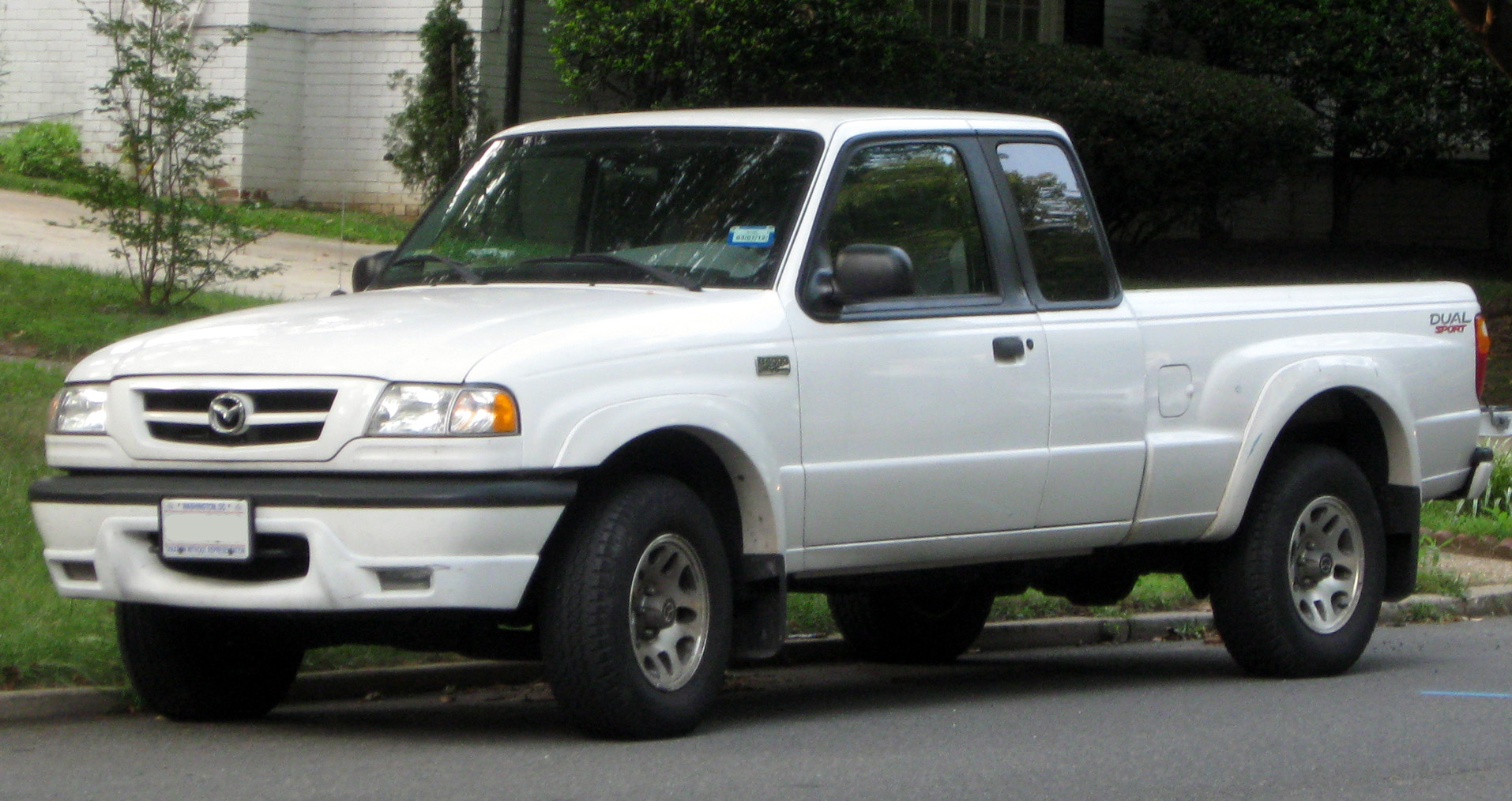 2002-2009 Mazda B-Series (B4000 Dual Sport extended cab) photographed in Washington, D.C., USA.